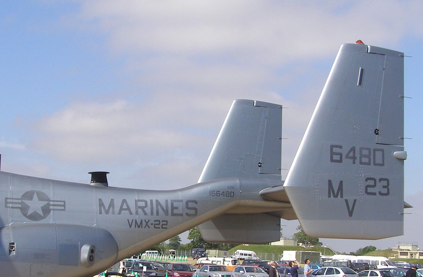 United States Navy V-22 166480 (close up)